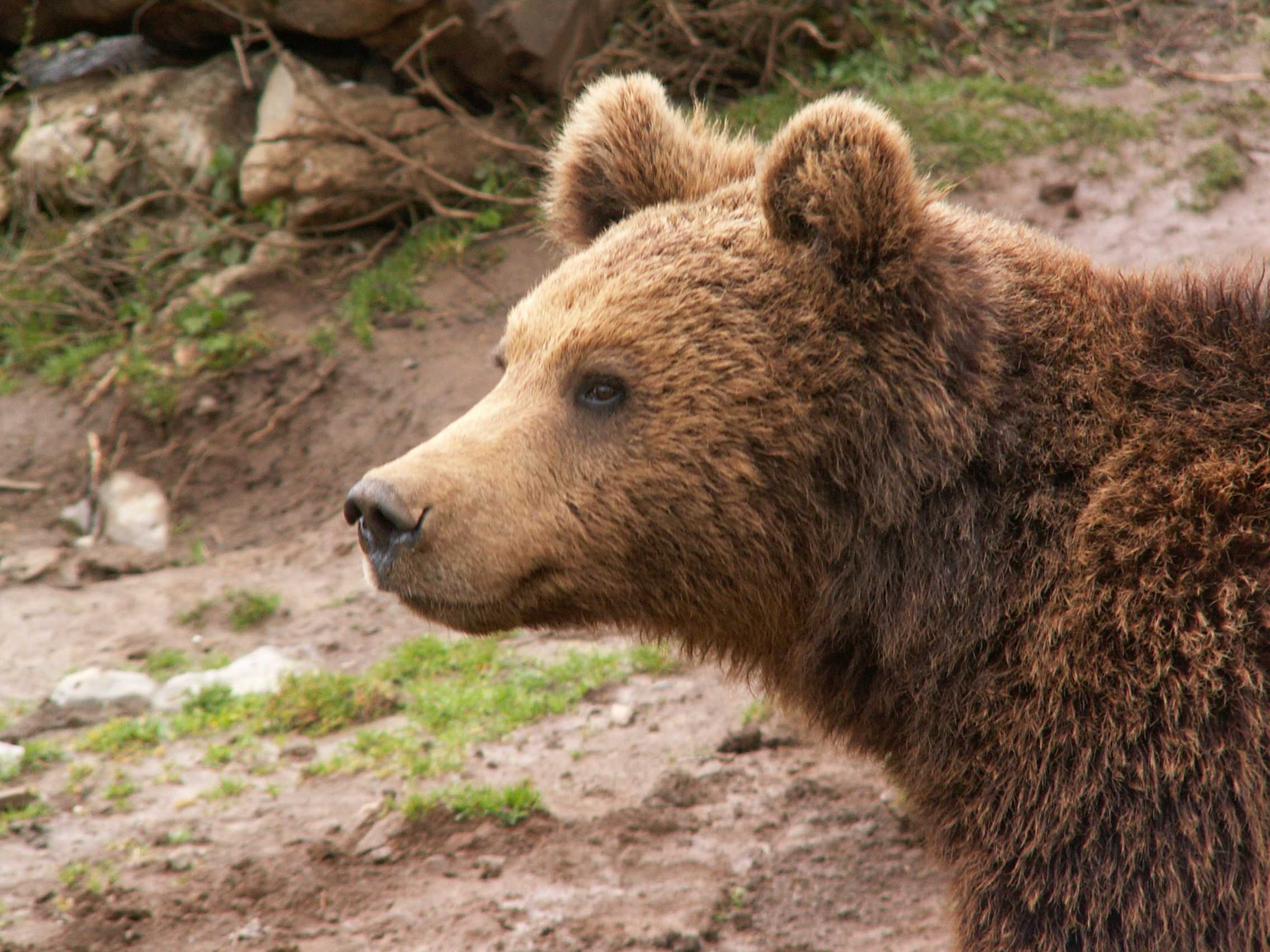 European Brown Bear, Kuterevo, Croatia